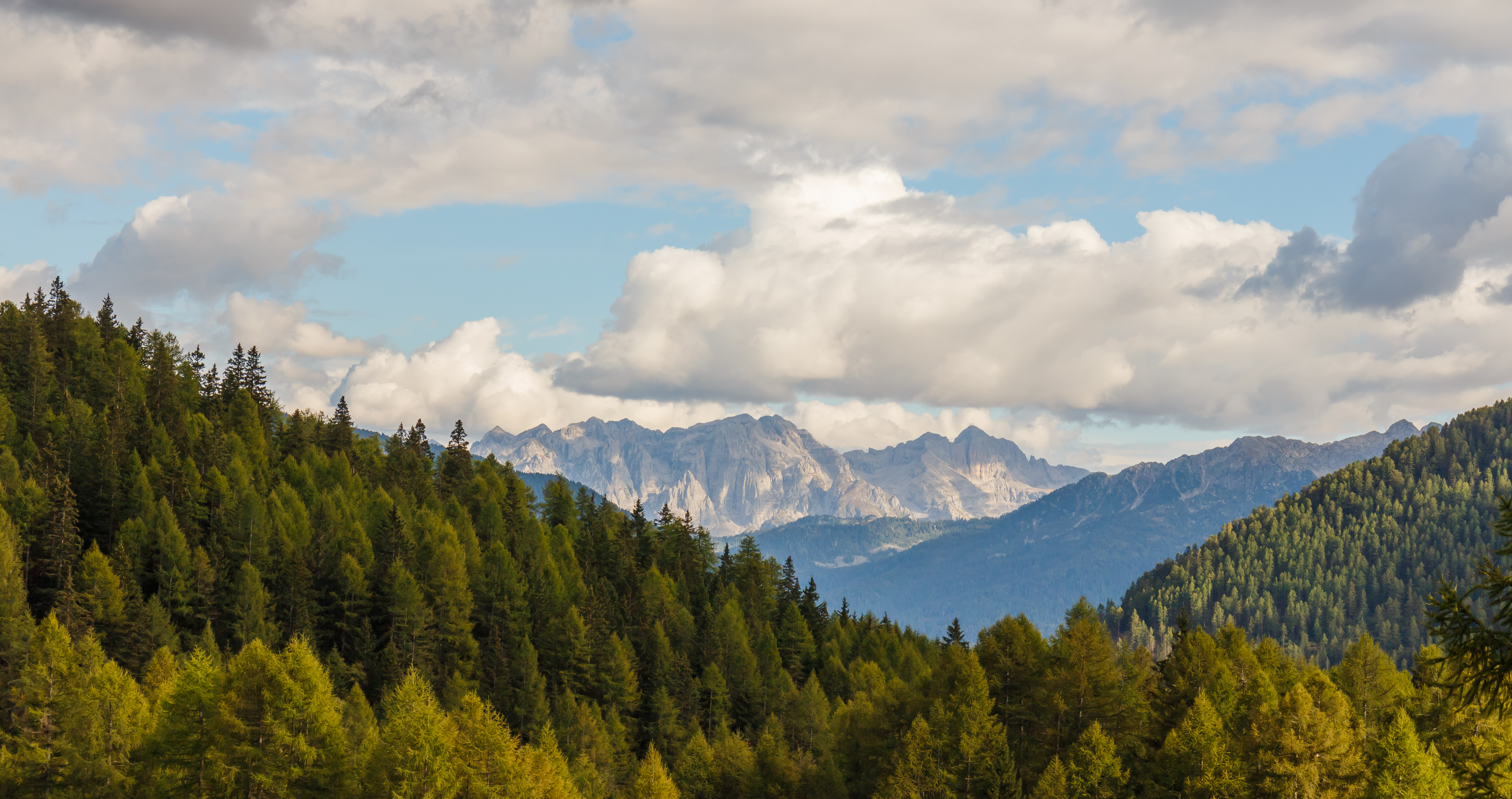 Mountain Walking Tour from Pejo to Lago Covel (1,839 m) in the Stelvio National Park (Italy).